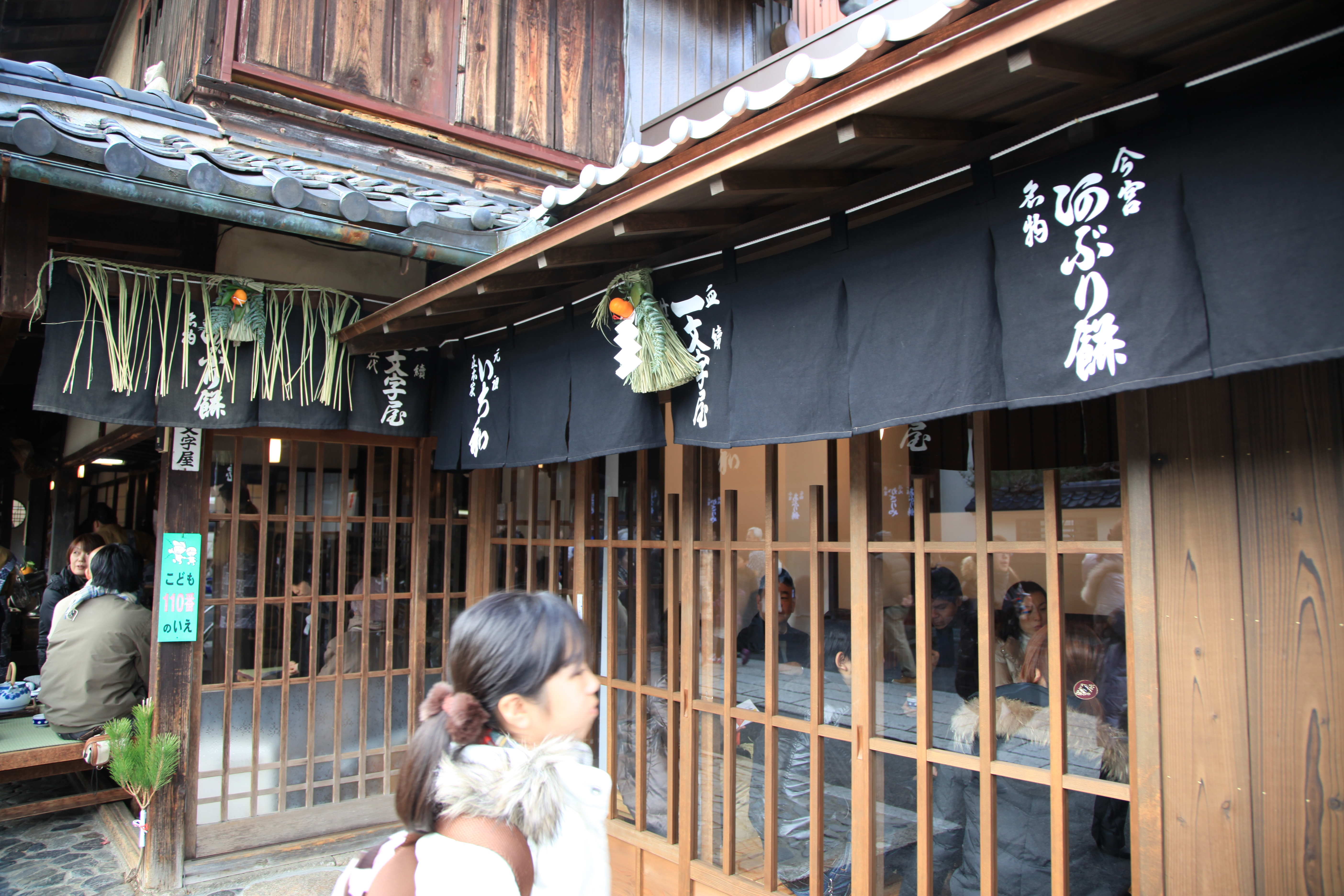 Front of the gate of the shrine Imamiya,[Ichimonjiya]